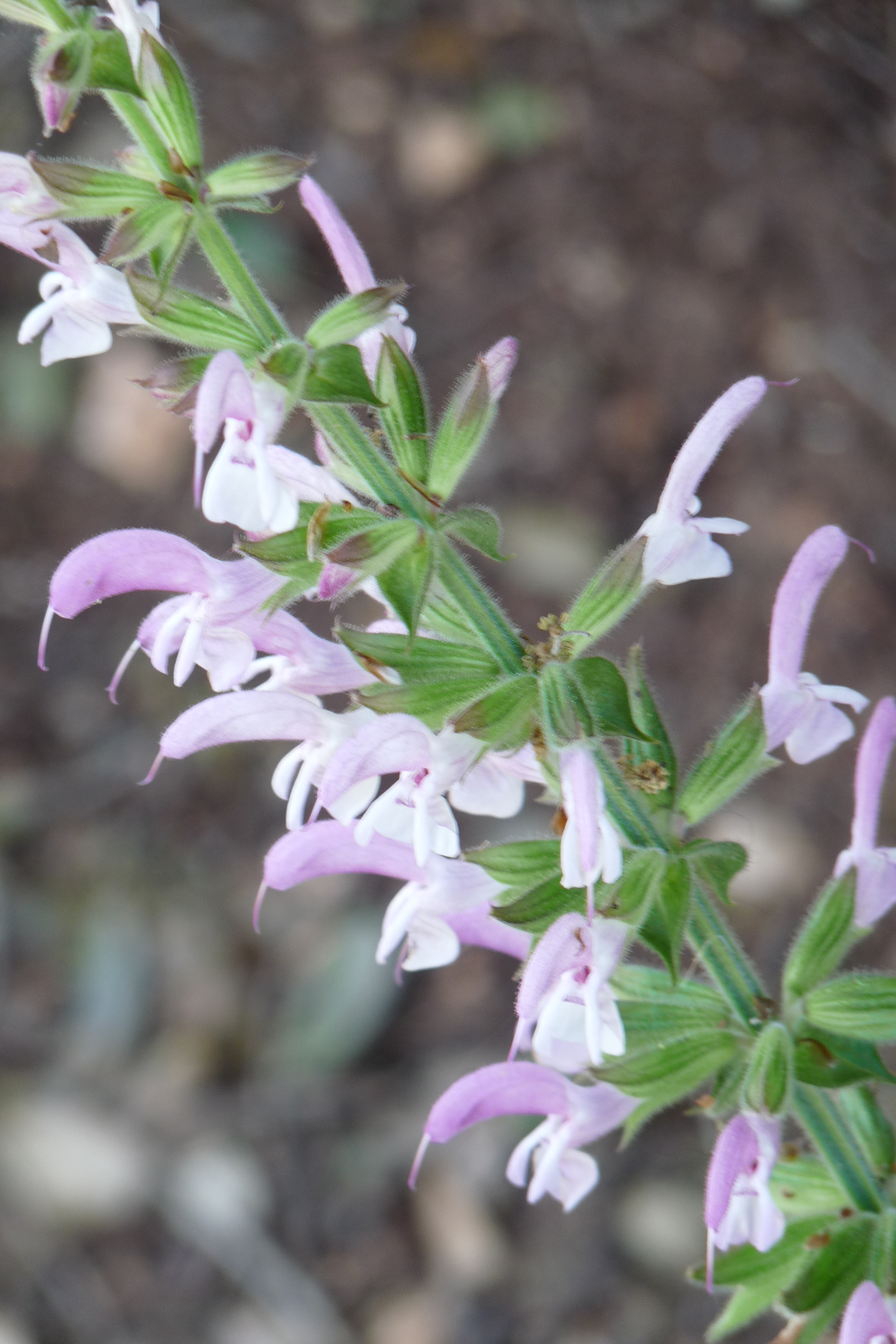 Close-up of the blossom of Salvia sclarea near the Kziv stream in the western Galilee